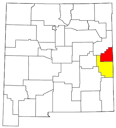 Locator map of the Clovis-Portales Combined Statistical Area in the eastern part of the U.S. state of New Mexico. The two components of the CSA are colored separately: Clovis Micropolitan Statistical Area: red Portales Micropolitan Statistical Area: yellow